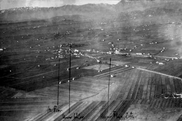 The airfield of St. Fior base of Jasta 1